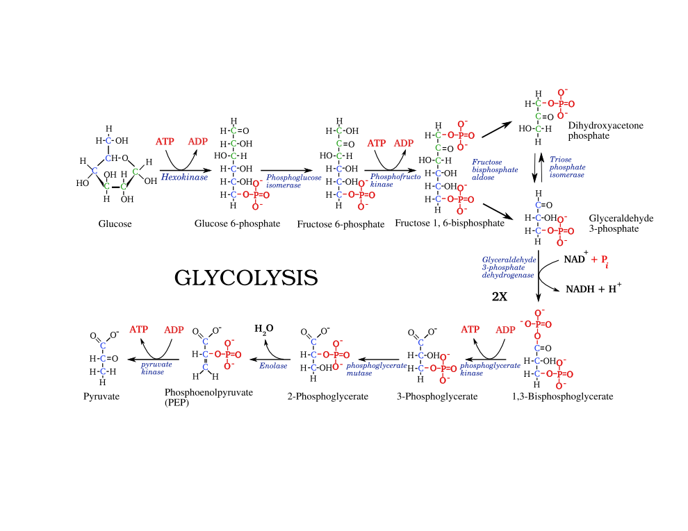 **Note: There is an error in this drawing in last step. The pyruvate molecule should not have a hydrogen attached to the second carbon since this would violate the octet rule. Note 1': the Glucose 6-phosphate in the pathway the first carbon (C1) should not have two Hydrogens attached. Should be H-C=O then attached to the rest of the structure. Note 2: arrows between the following compounds should be two-way, i.e. they are reversible reactions: (G6P + F6P), (F1,6P2 + DHAP/GAP), (GAP + 1,3DPG), (1,3DPG + 3PG), (3PG + 2PG), (2PG + PEP)